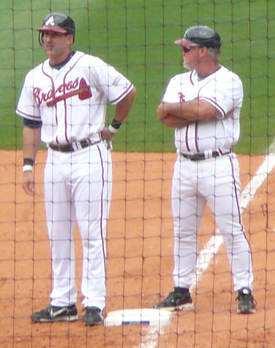 Please attribute this photo by name if used in places other than Wikipedia. 06:33, 29 May 2008 . . Chrisjnelson . . 397×502 (214 KB)